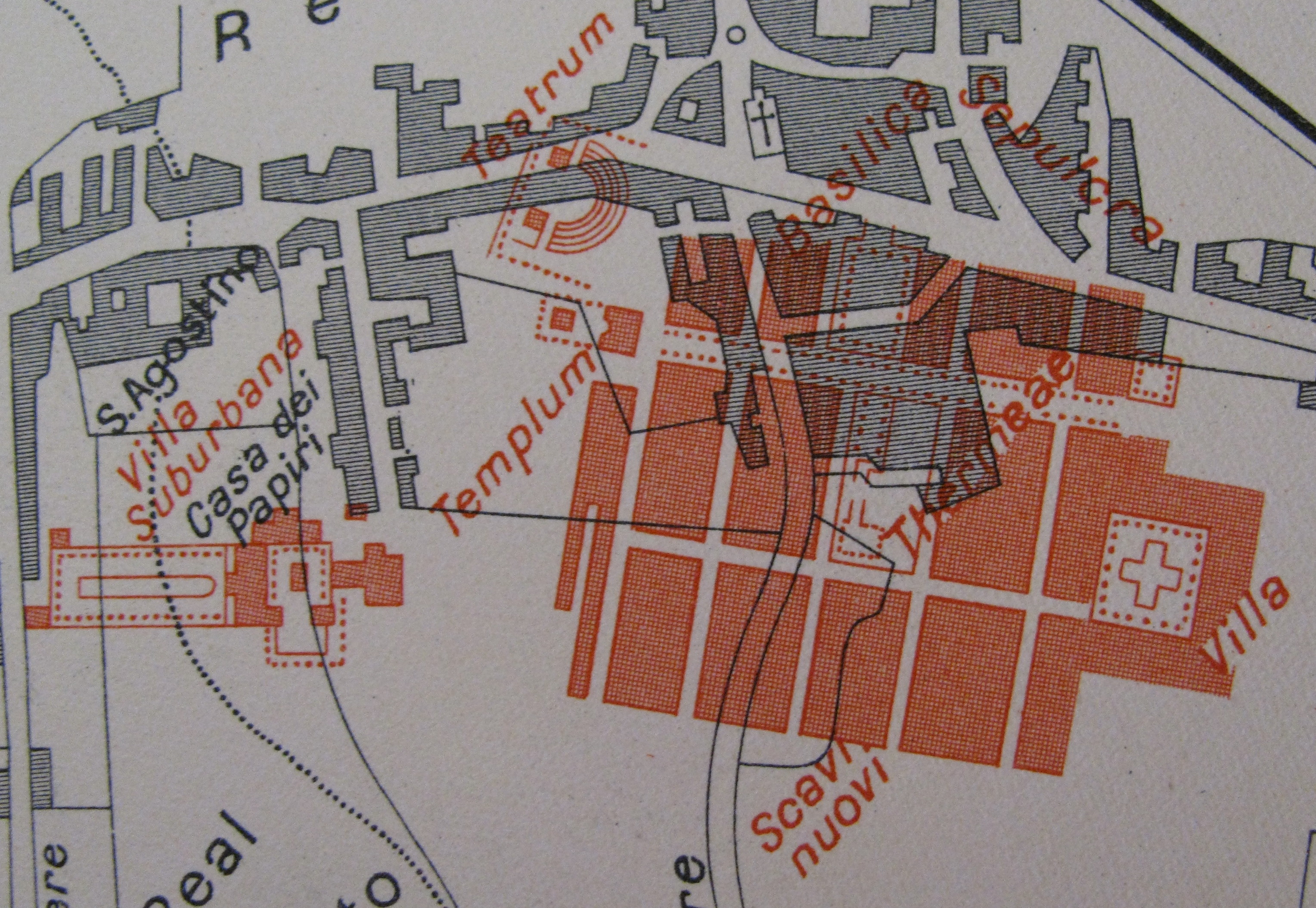 Antic Herculanum map (in red), according searches of XVIIIe century